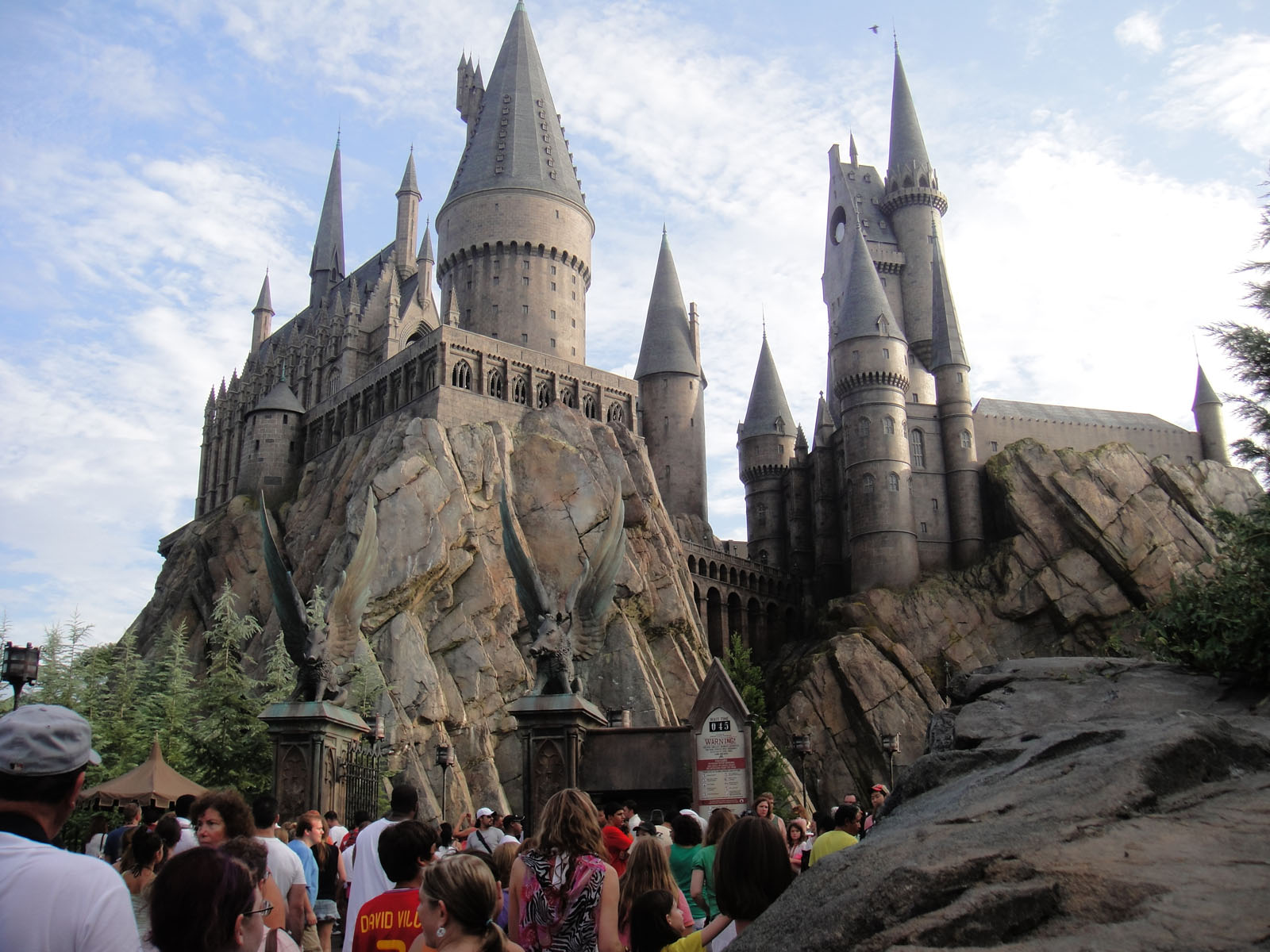 Wizarding World of Harry Potter - Hogwarts castle